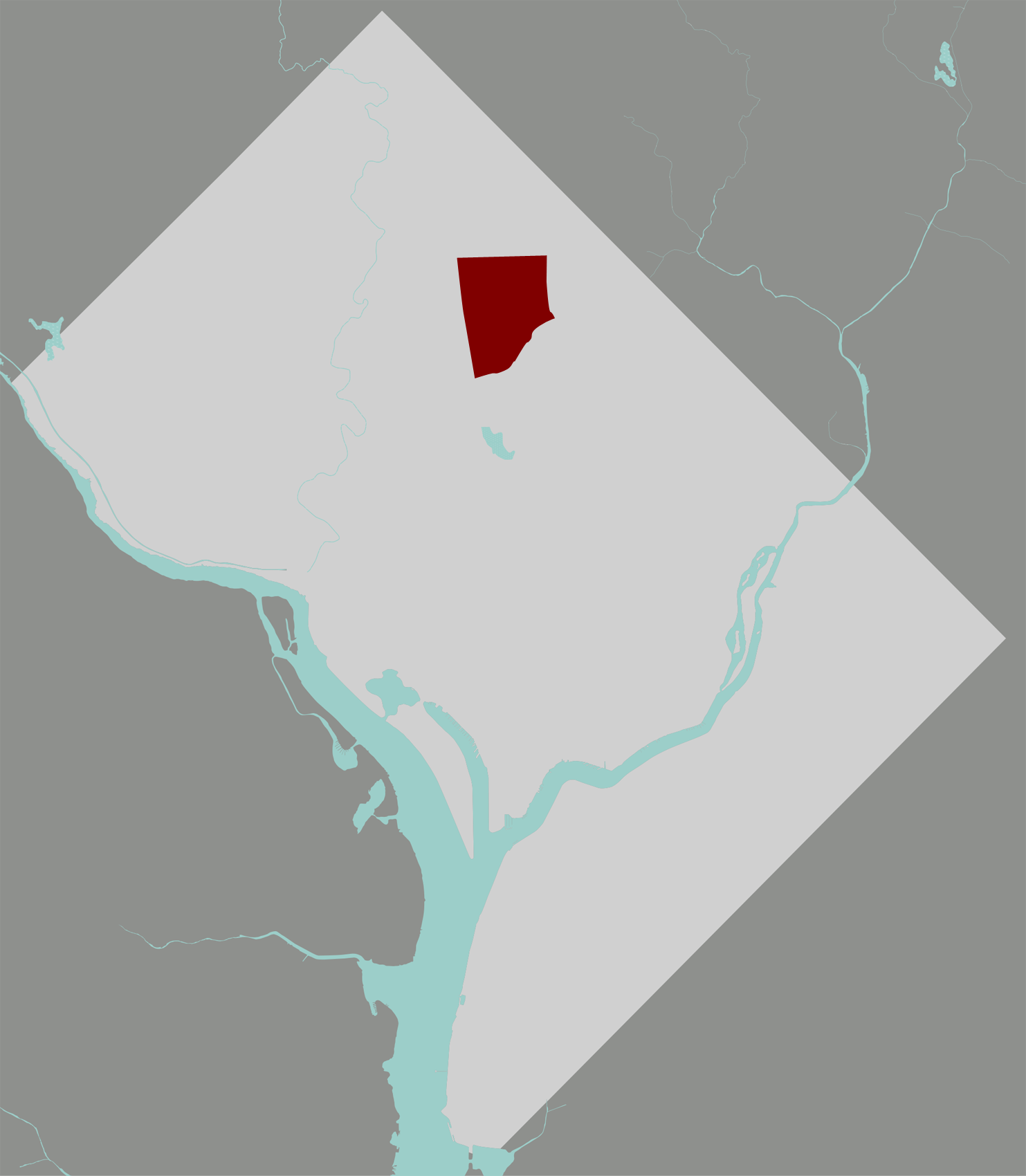 Petworth, maroon, within Washington, D.C..